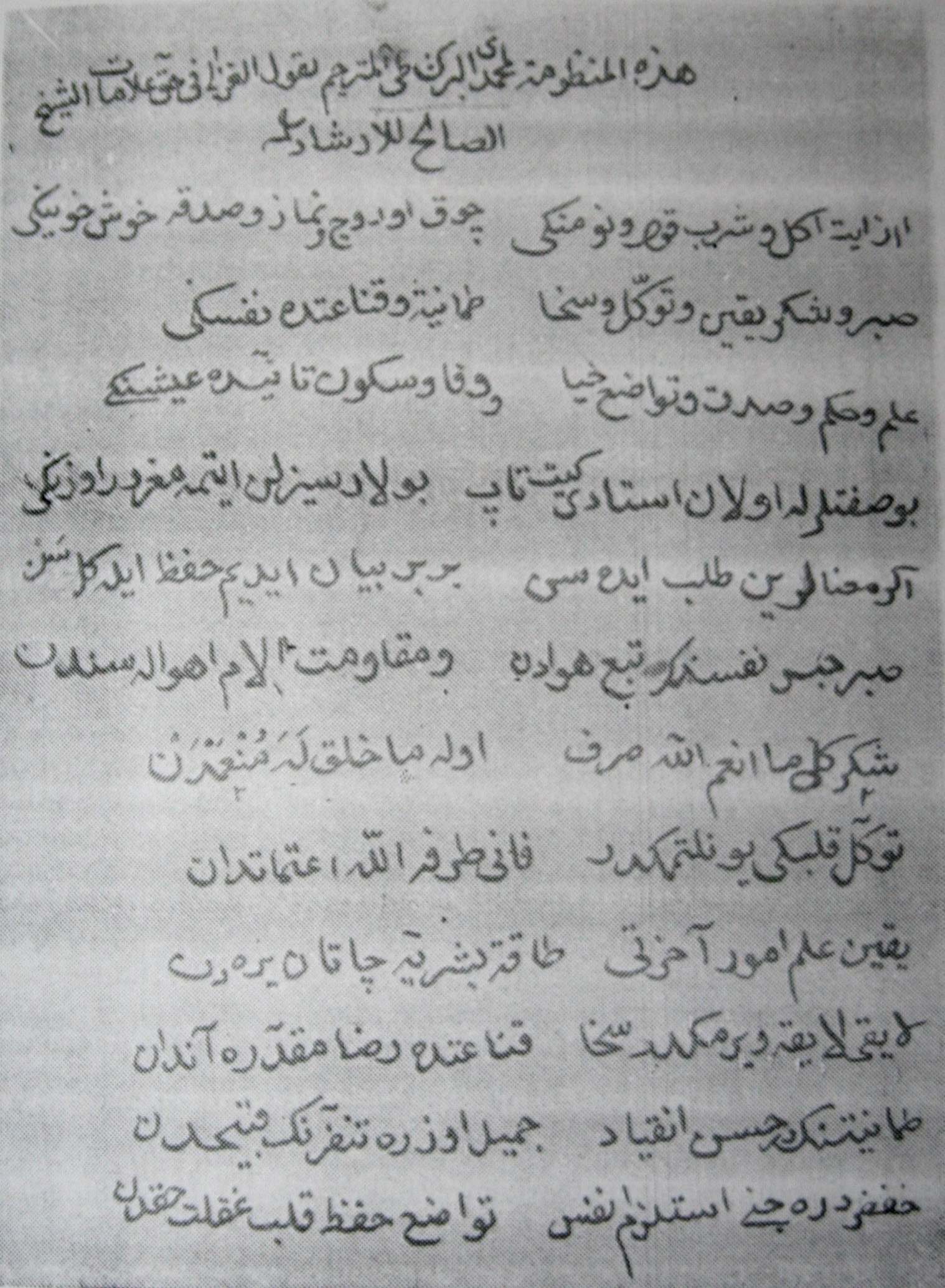 Page from Tİbbi Nebivi by Muhammad Bargushadi